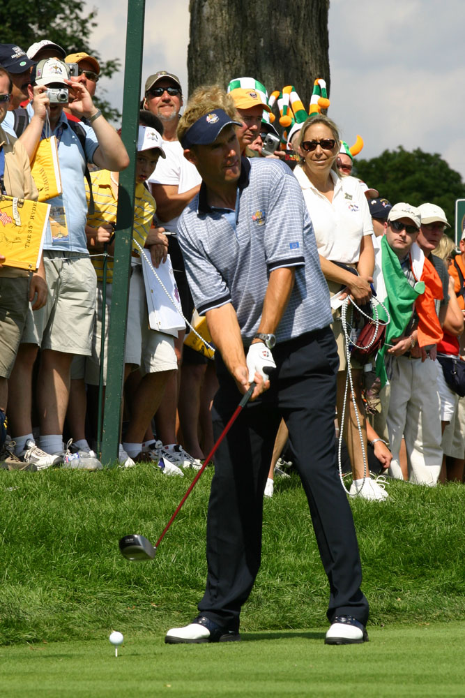 Pádraig Harrington practicing a day before the 2004 Ryder Cup at the Oakland Hills Country Club in Bloomfield Hills, Michigan.